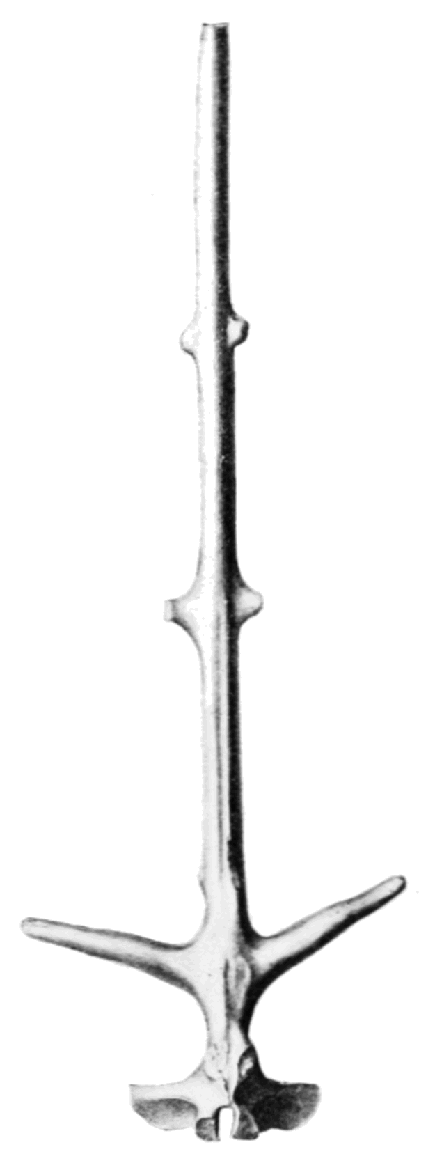 Front view of one of the dorsal spines of Naosaurus